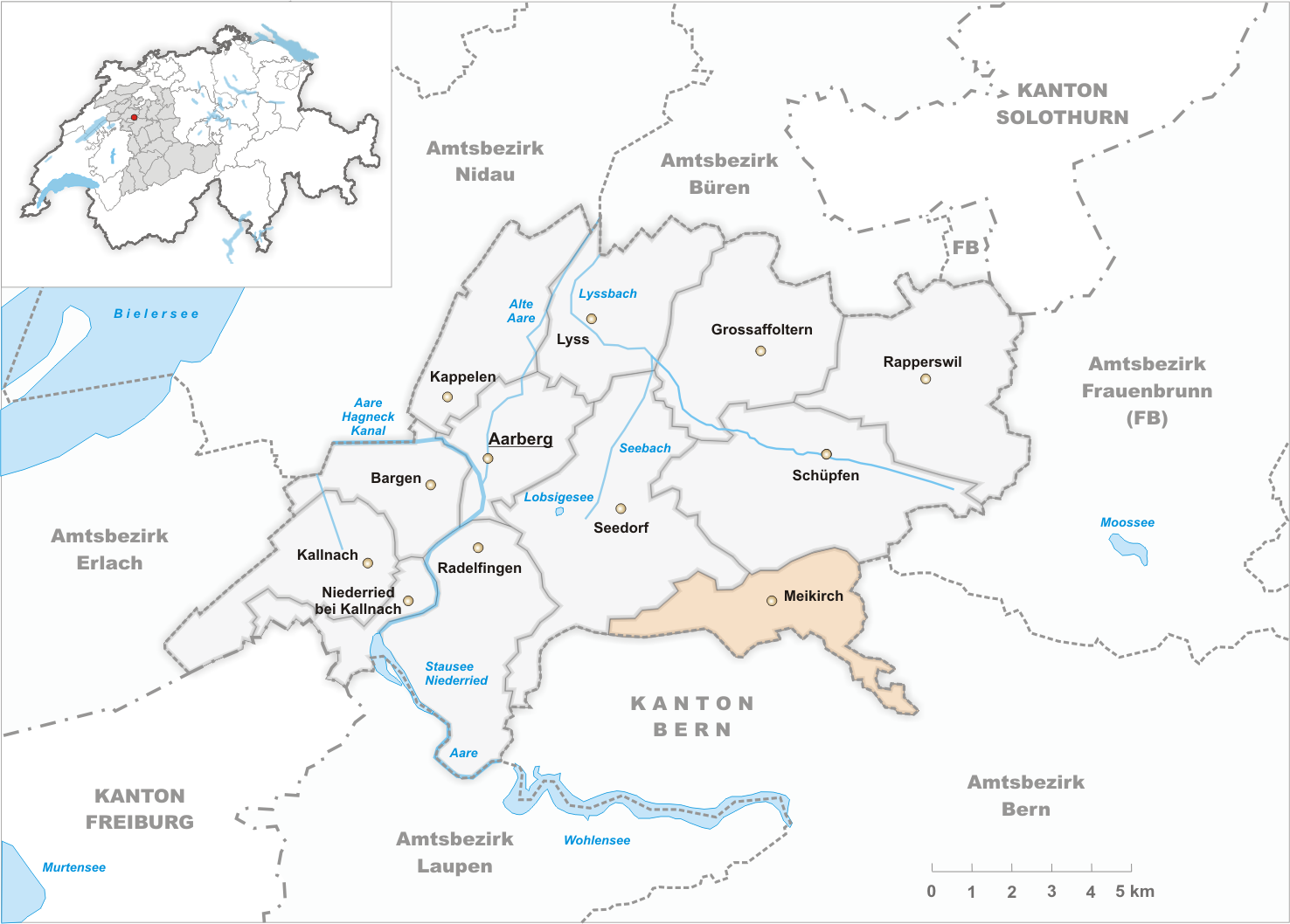 Municipality Meikirch